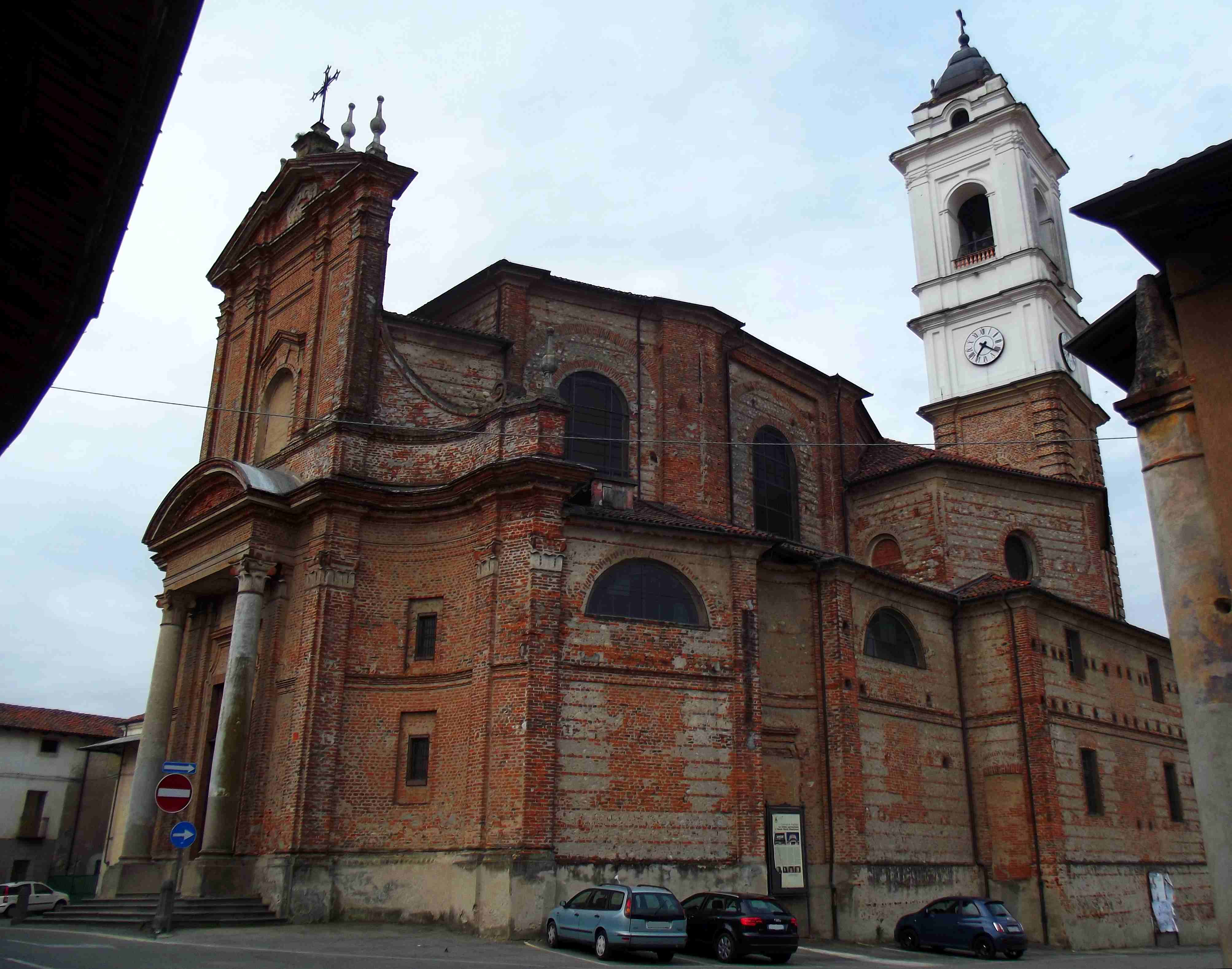 Foglizzo (TO, Italy): Mary Magdalene's church